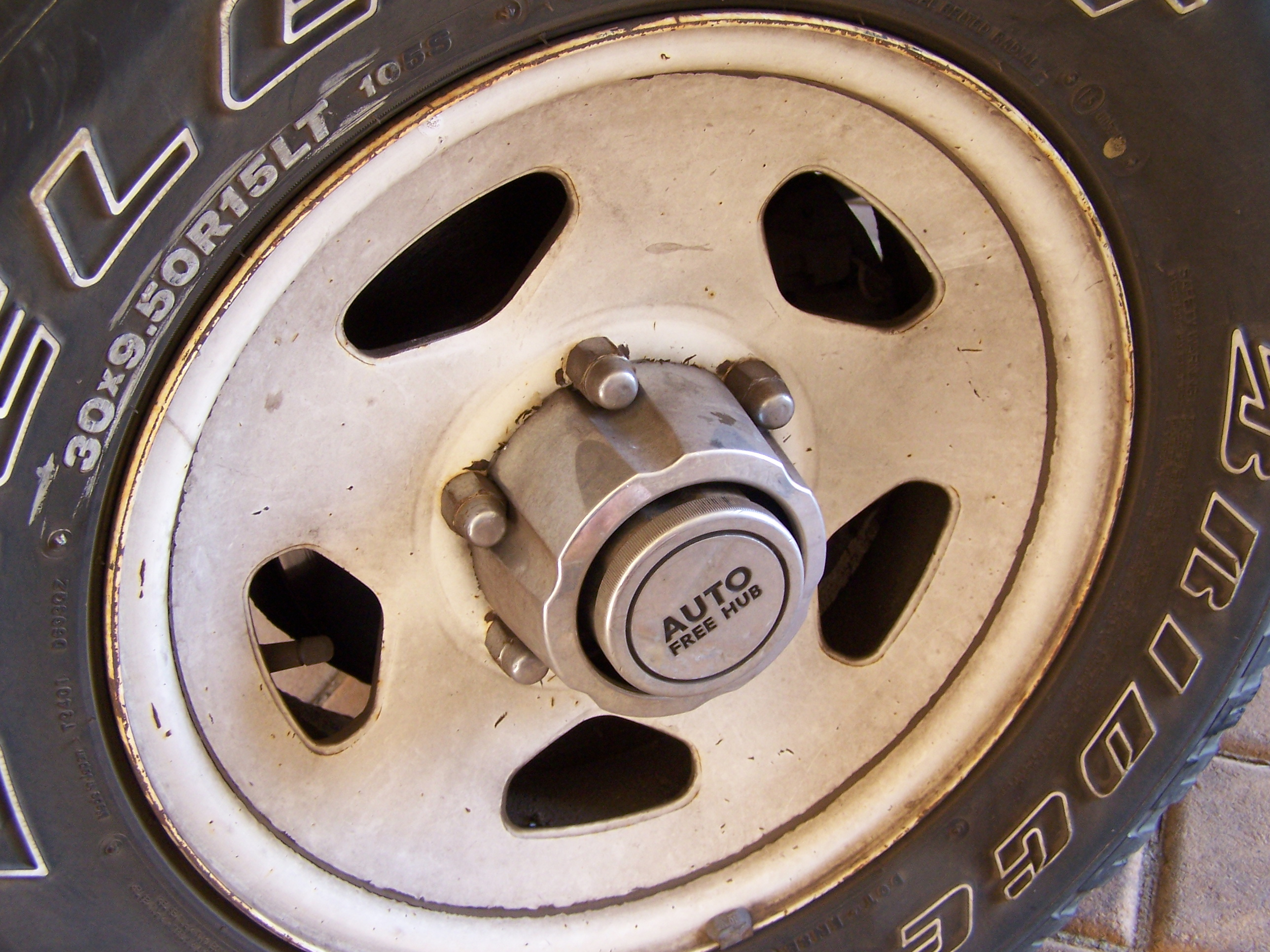 Front left hub of a 1986 Mitsubishi Pajero..